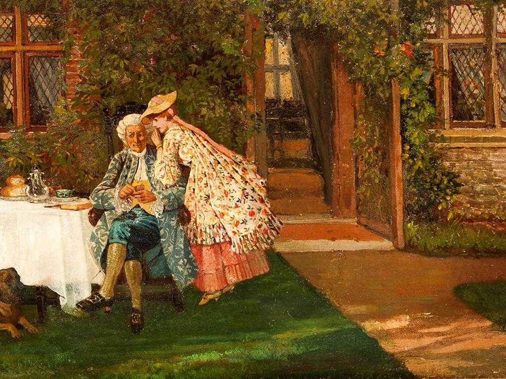 Gallant scene